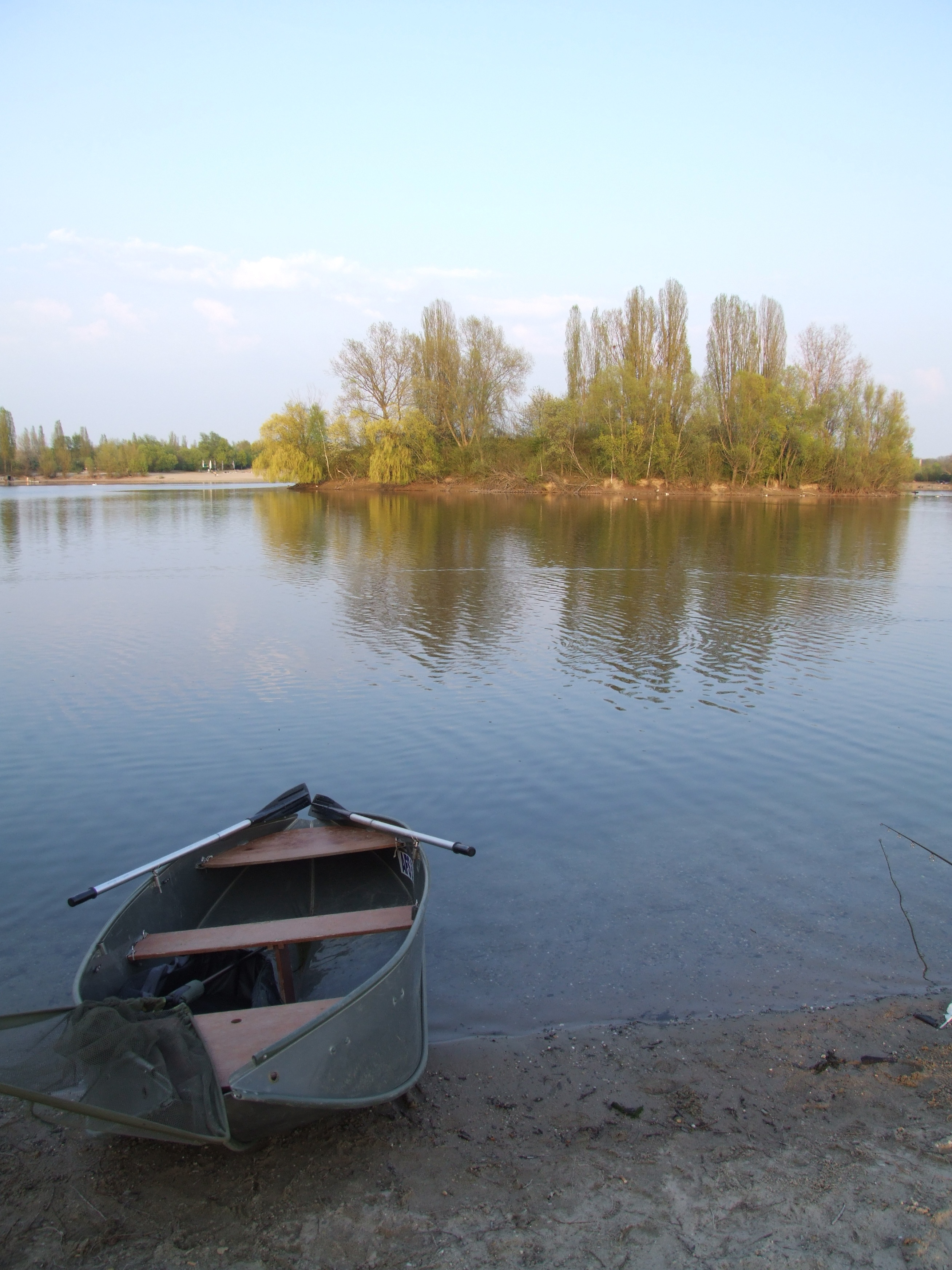 View at an island at lake Binsfeld, center of the area Binsfeld in Speyer.